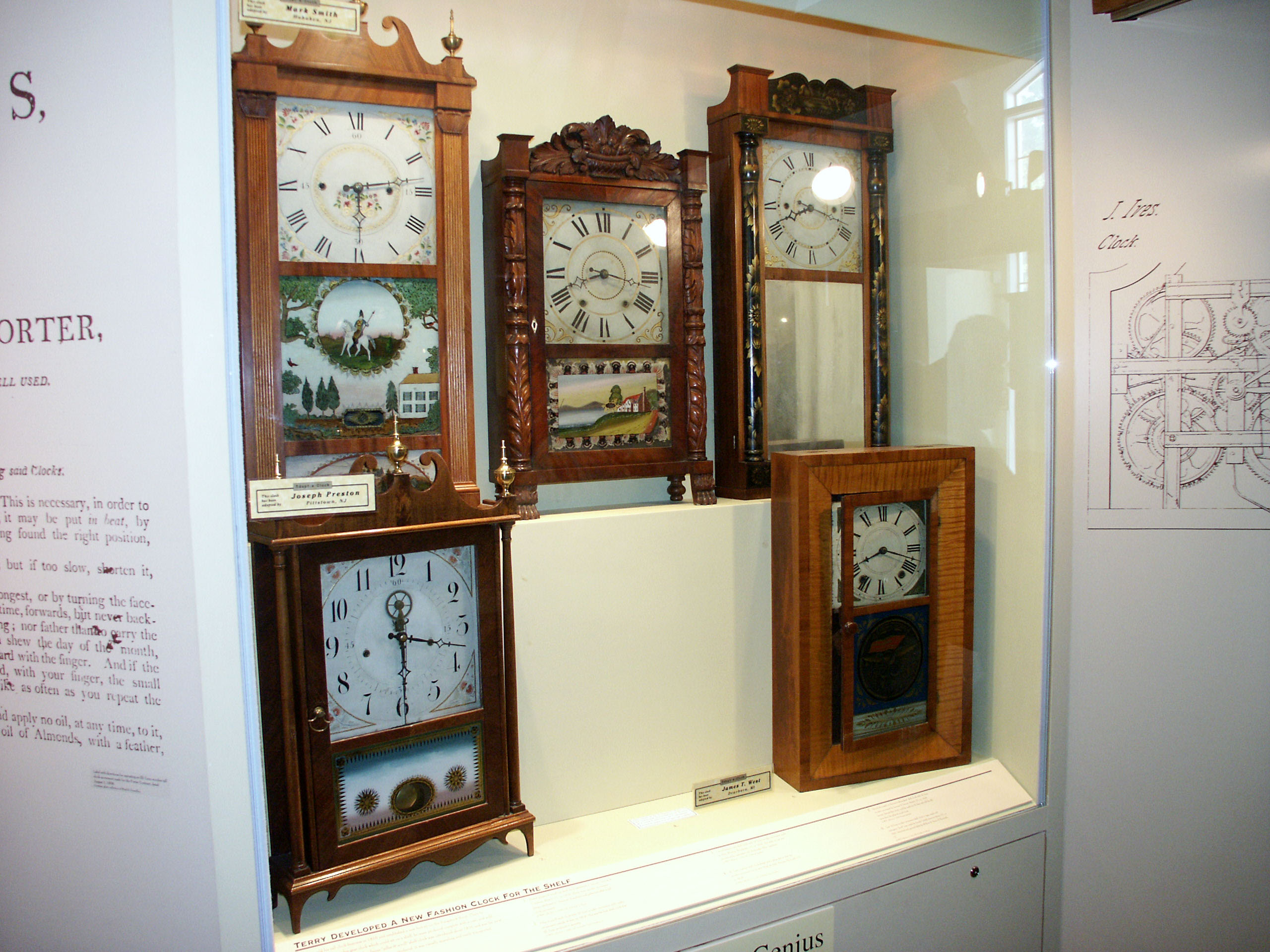 A display of Connecticut shelv\f clocks at the American Clocj and Watch Museum in Bristol CT